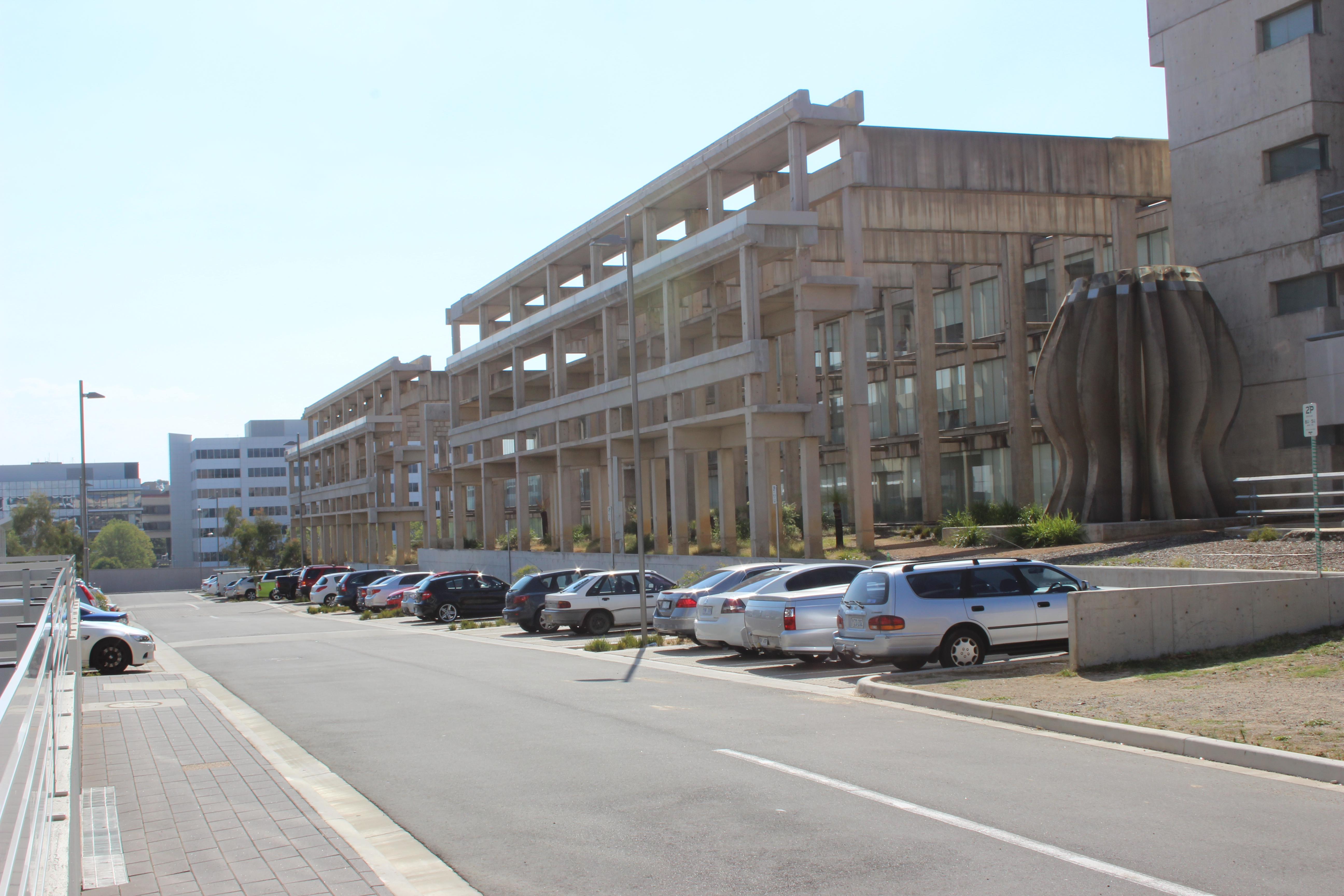 Cameron Offices Wing 5. The sculpture Galaxy by Gerald Gladstone is visible to the right.